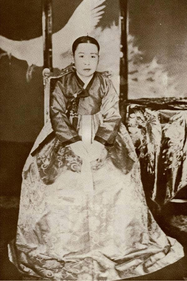 Official portrait of Empress Sunjeong of the Haepyeong Yun clan. Dated 1930 on